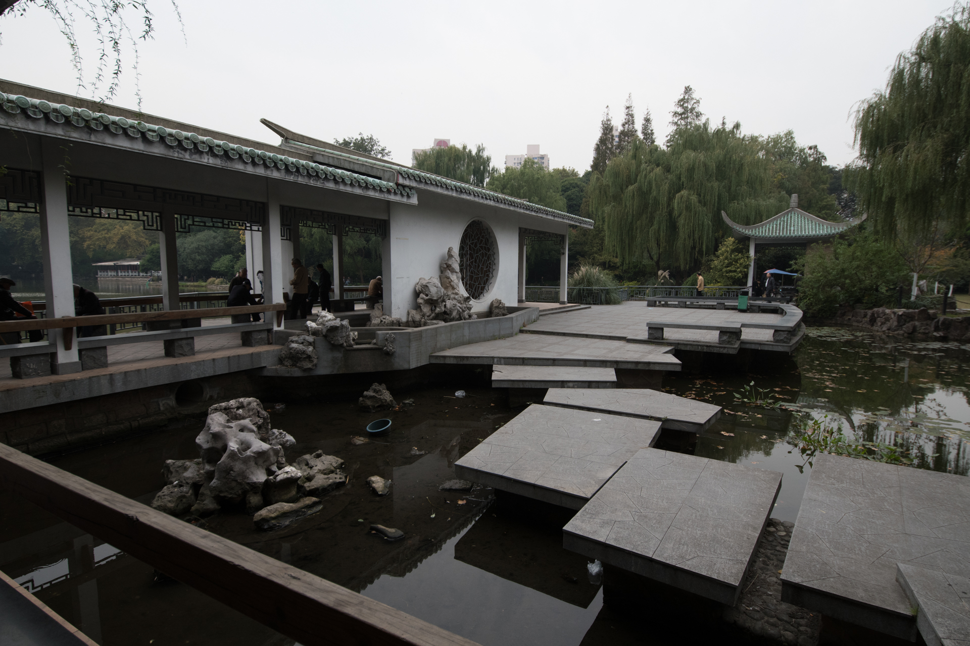 Te Li Ming Teahouse LuXun Park